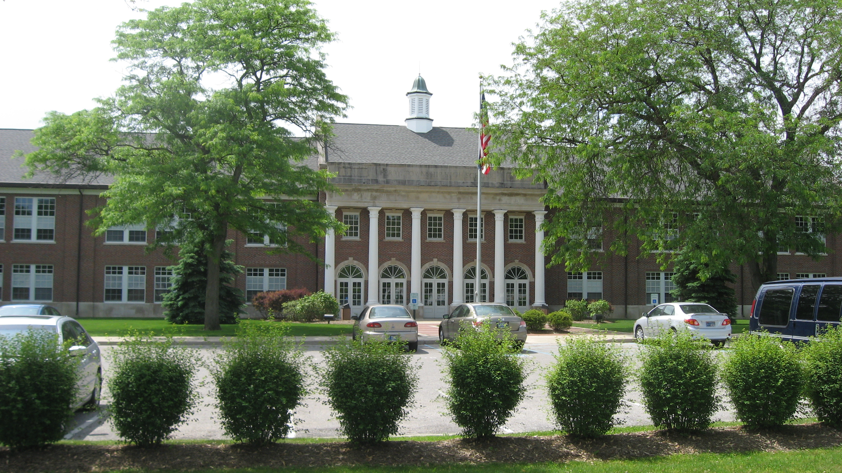 Front of the Old Southport High School, located at 6548 Orinoco Avenue in Indianapolis, Indiana, United States. Built in 1904, it is listed on the National Register of Historic Places.